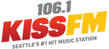 New Ident for KBKS-FM KISS FM 1061.